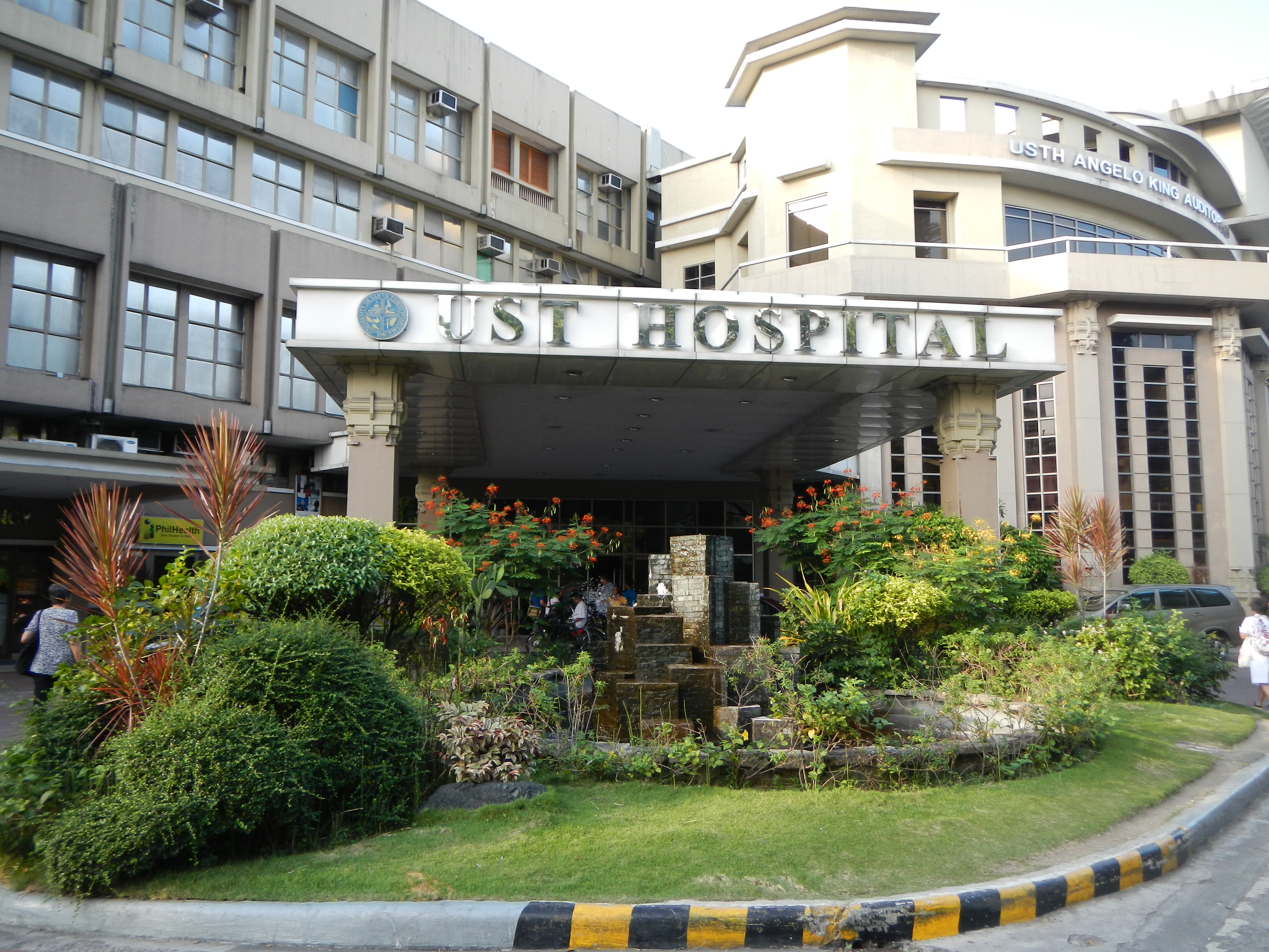 The University of Santo Tomas Hospital (simply UST Hospital or USTH) is located inside the España, Manila campus of University of Santo Tomas. It was founded in 1577 as San Juan de Dios Hospital that became the clinical training institution of medical students of University of Santo Tomas.[1][2][3] University of Santo Tomas[4]